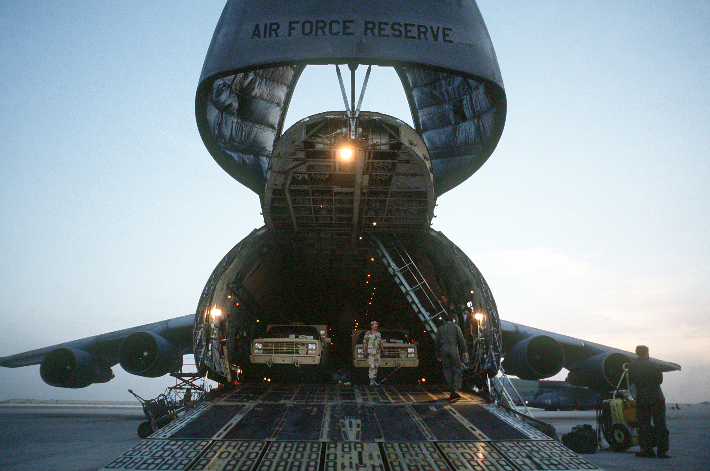 Military trucks are unloaded from the nose ramp of a U.S. Air Force C-5A Galaxy transport aircraft assigned the U.S. Air Force Reserve, Military Airlift Command, in support of Operation Desert Shield.